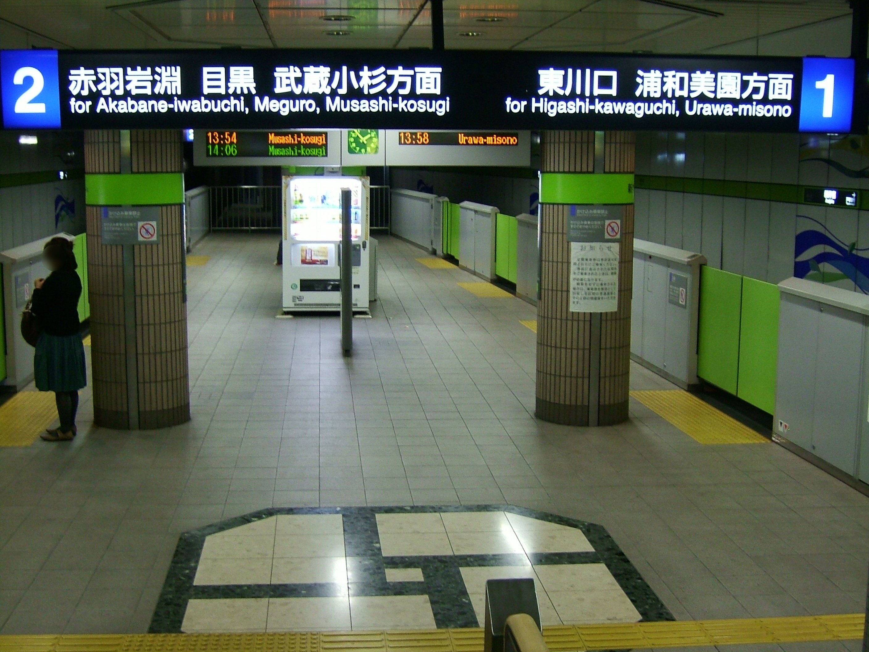 The platforms at Araijuku Station on the Saitama Rapid Railway Line